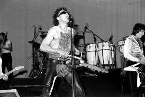 The Tubes, Chateau Neuf, Oslo, Norway